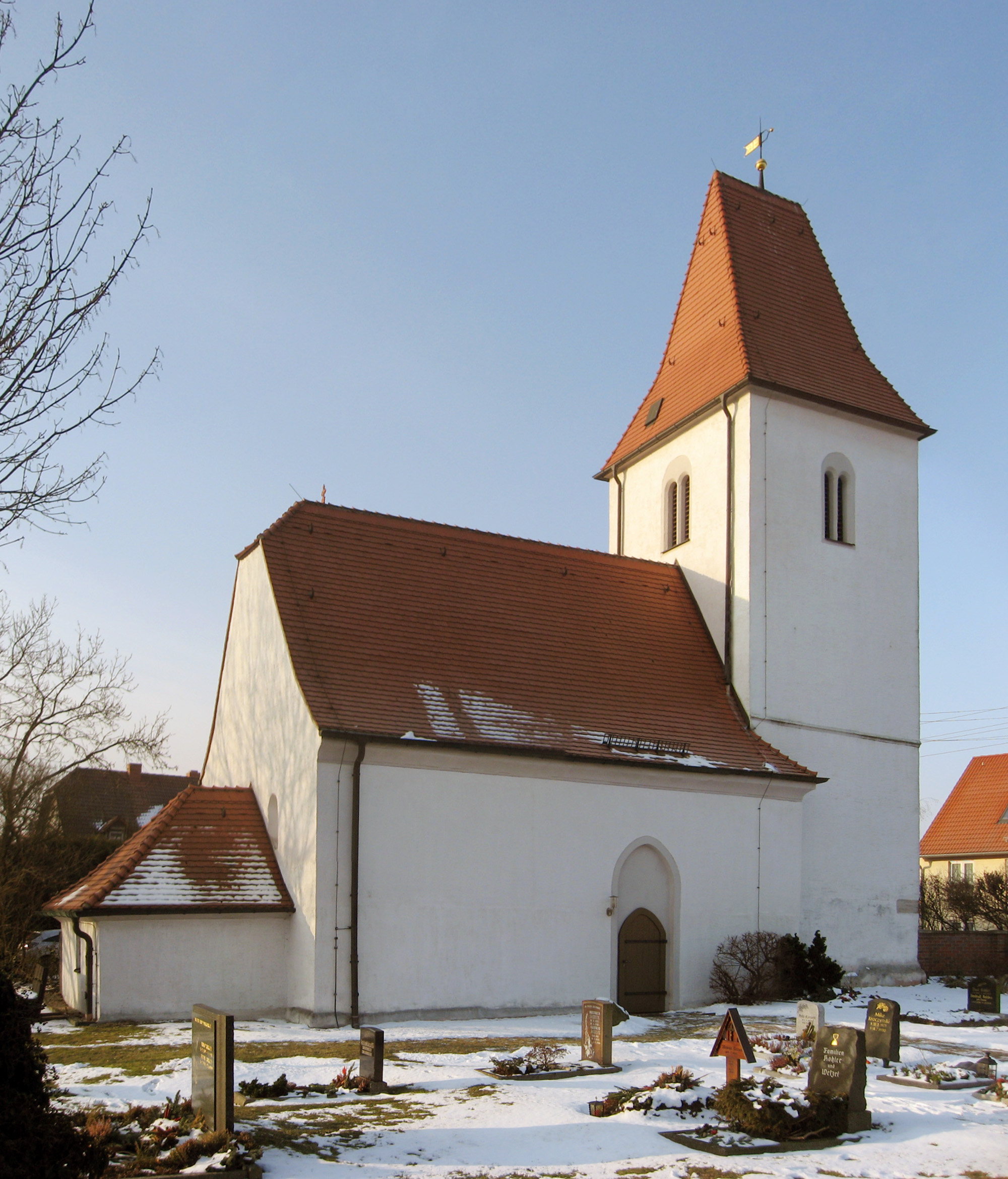 Church Leipzig-Lausen, Lausener Dorfplatz